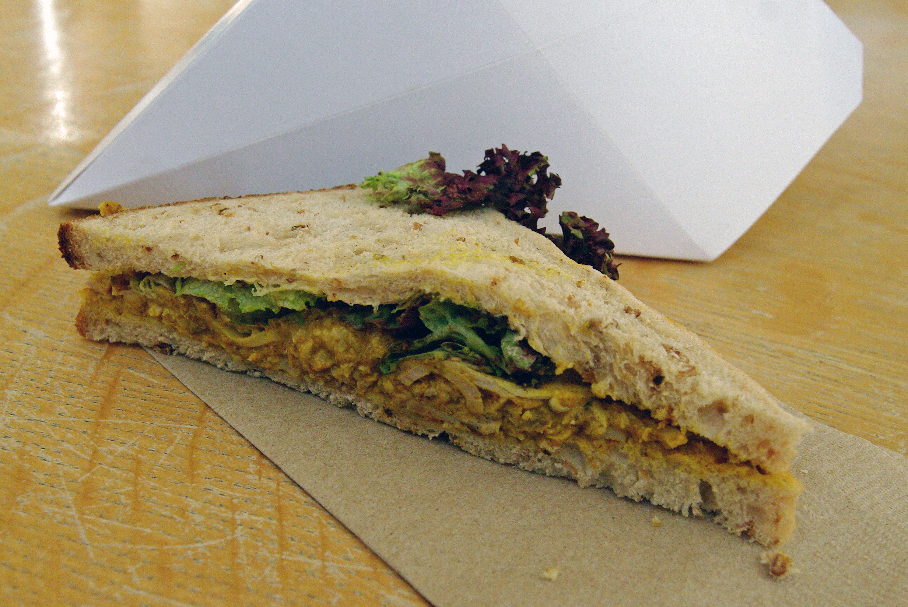 Coronation chicken sandwich, unwrapped, from London Kew Gardens